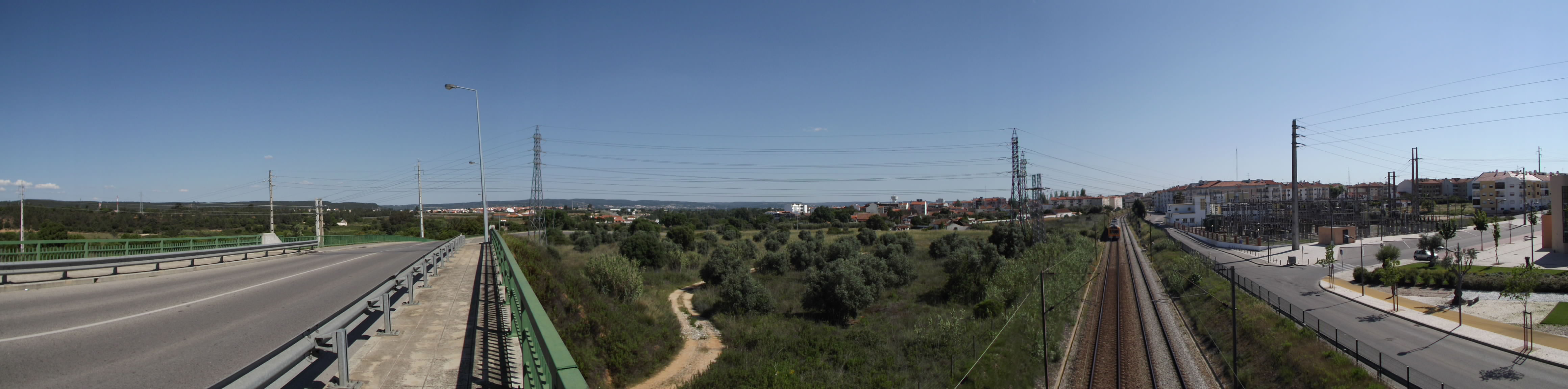 Panoramic views of the city from the bridge which is near the sports area of the city. Description: right you can see (one small) part of the sports hall and municipal sub-power station that feeds the city, and behind several residential buildings already owned by the city. In the center background you can see some buildings in the city and the water tank that feeds the south of the city.